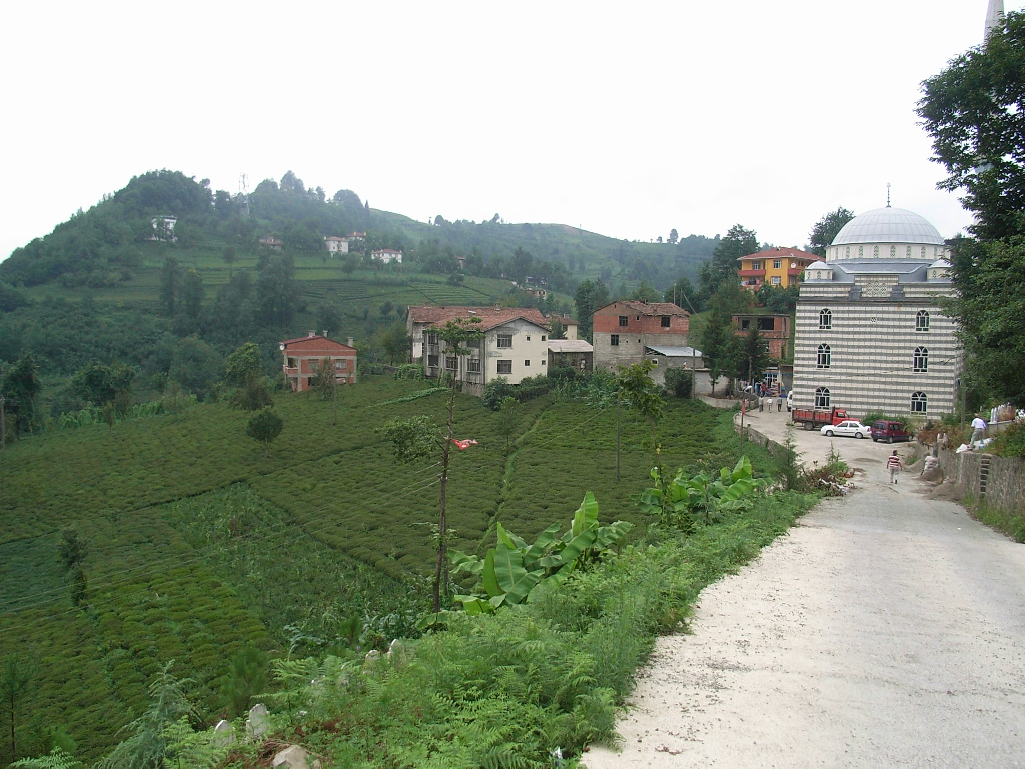 A view from Yarlı, Hayrat.